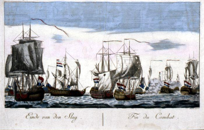 The end of the battle of Dogger Bank, 5th august 1781